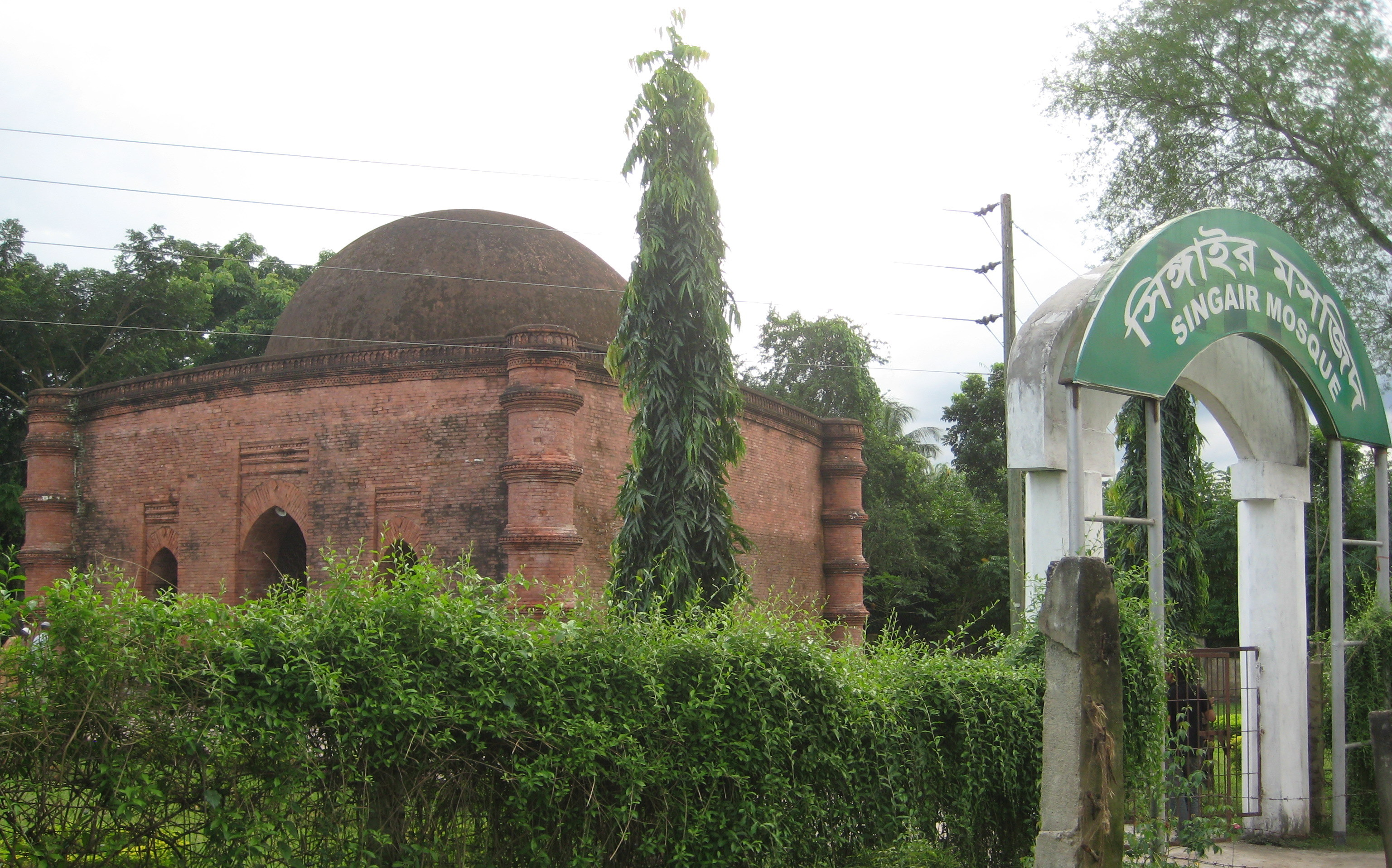 The single-dome mosque is located 4 kilometers west of the Bagerhat town just opposite from the Shaitgumbad mosque. This mosque is part of the Khilafatabad town that was set up by Khan Jahan Ali and his followers in the 15th century. The brick-built mosque is square in shape. There are four circular columns on each corner. Inside the mosque, there is just one mihrab on the western all. There are several niches on the walls where oil-lamps used to be placed. The mosque is decorated with terracotta.